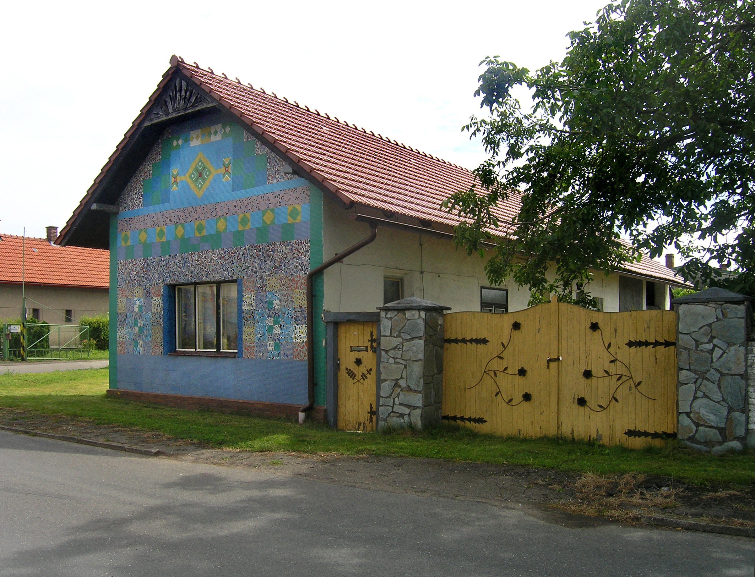 House with mosaic in Ohaře, Czech Republic